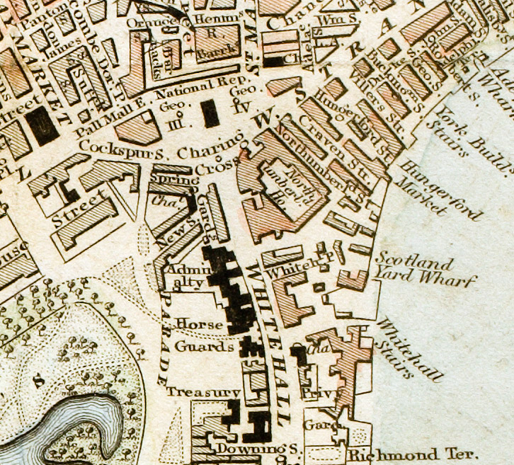 Charing Cross section of "Improved map of London for 1833, from Actual Survey. Engraved by W. Schmollinger, 27 Goswell Terrace", photographed for Wikipedia by User:Pointillist. All rights of the photographer are hereby released.